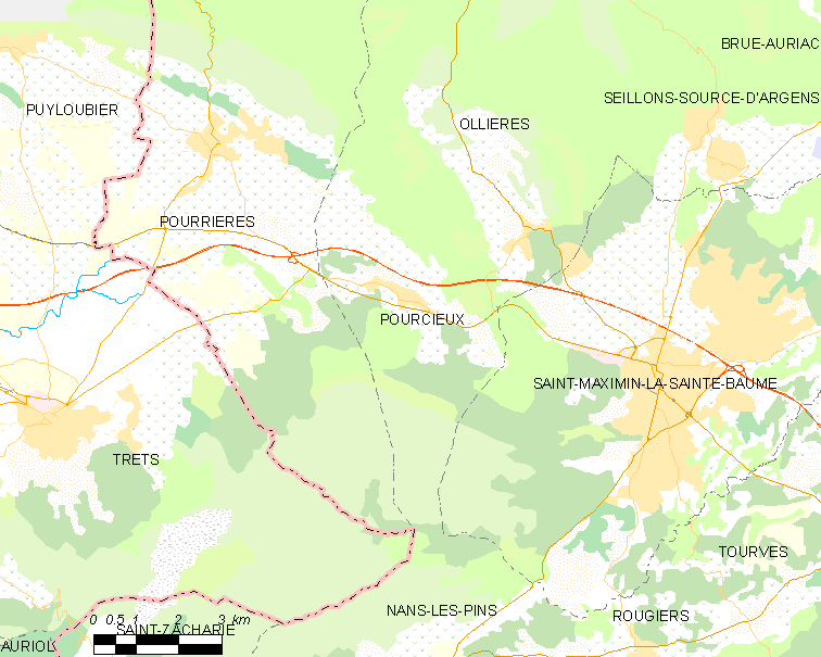 Map of French municipality Pourcieux